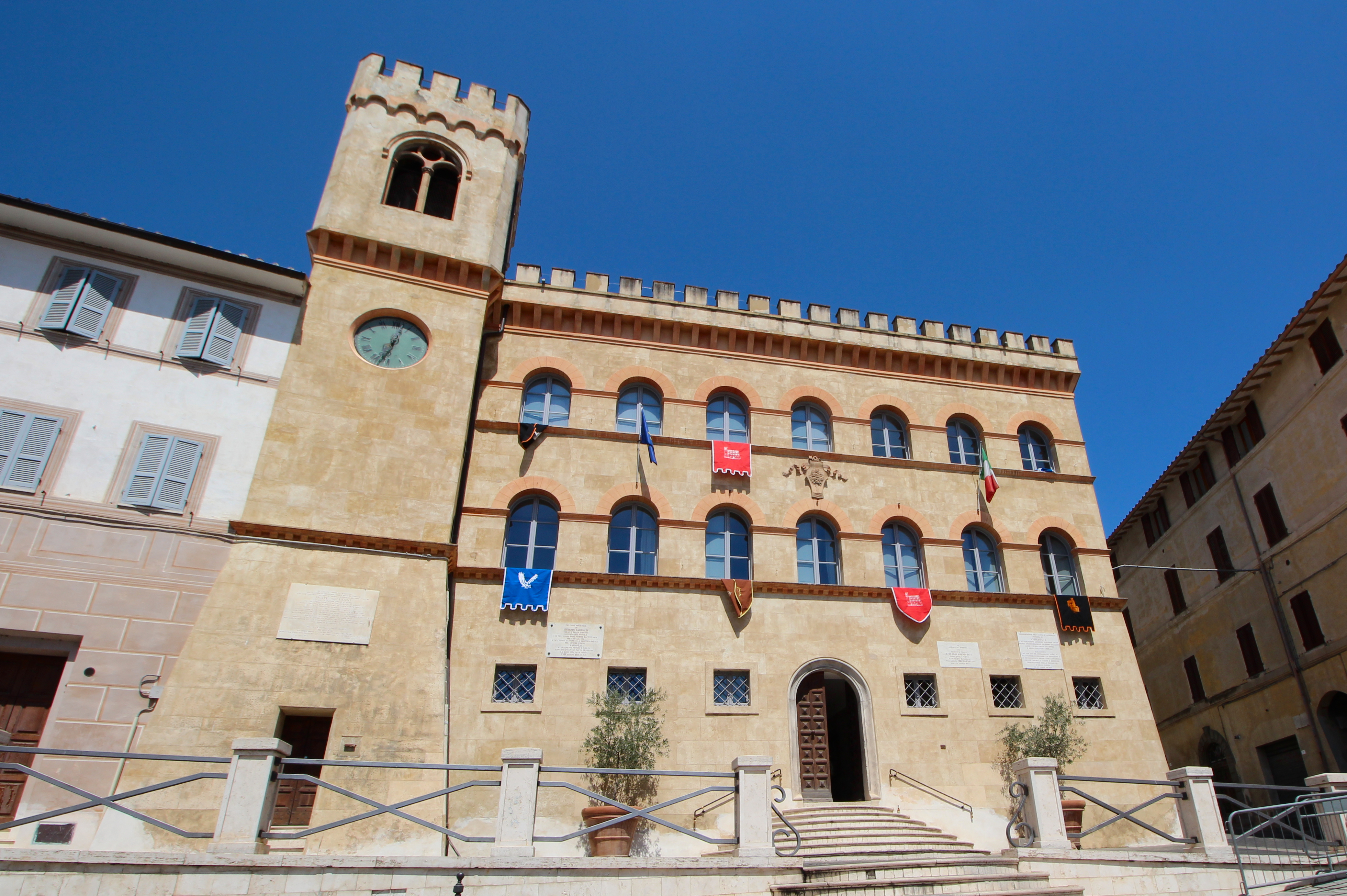 Palazzo Comunale, town hall of Magione, Province of Perugia, Umbria, Italy